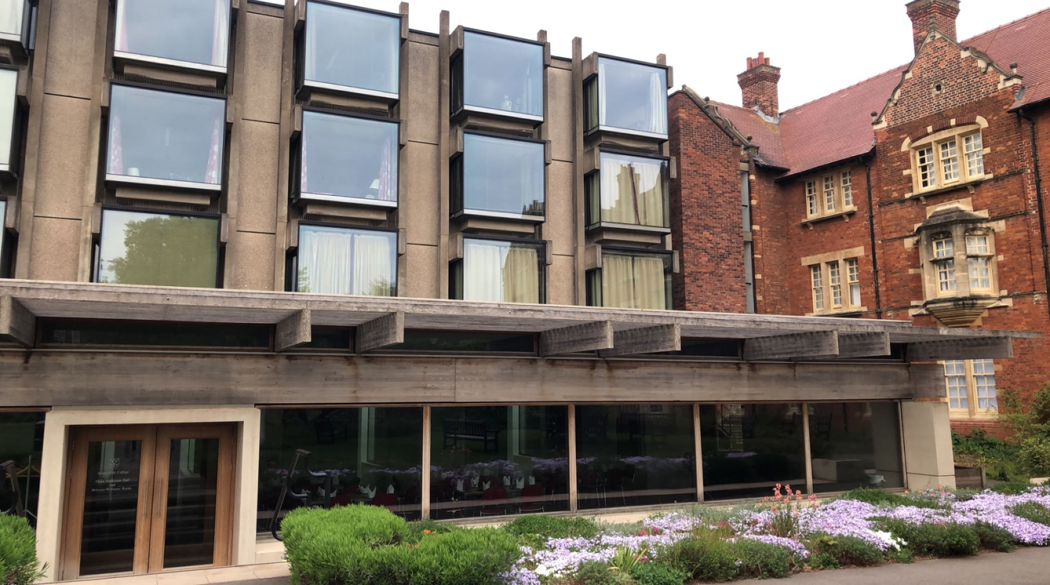 Wolfson Building and Flora Anderson Hall, Somerville College, University of Oxford, United Kingdom